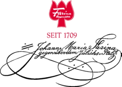 Farina Logo